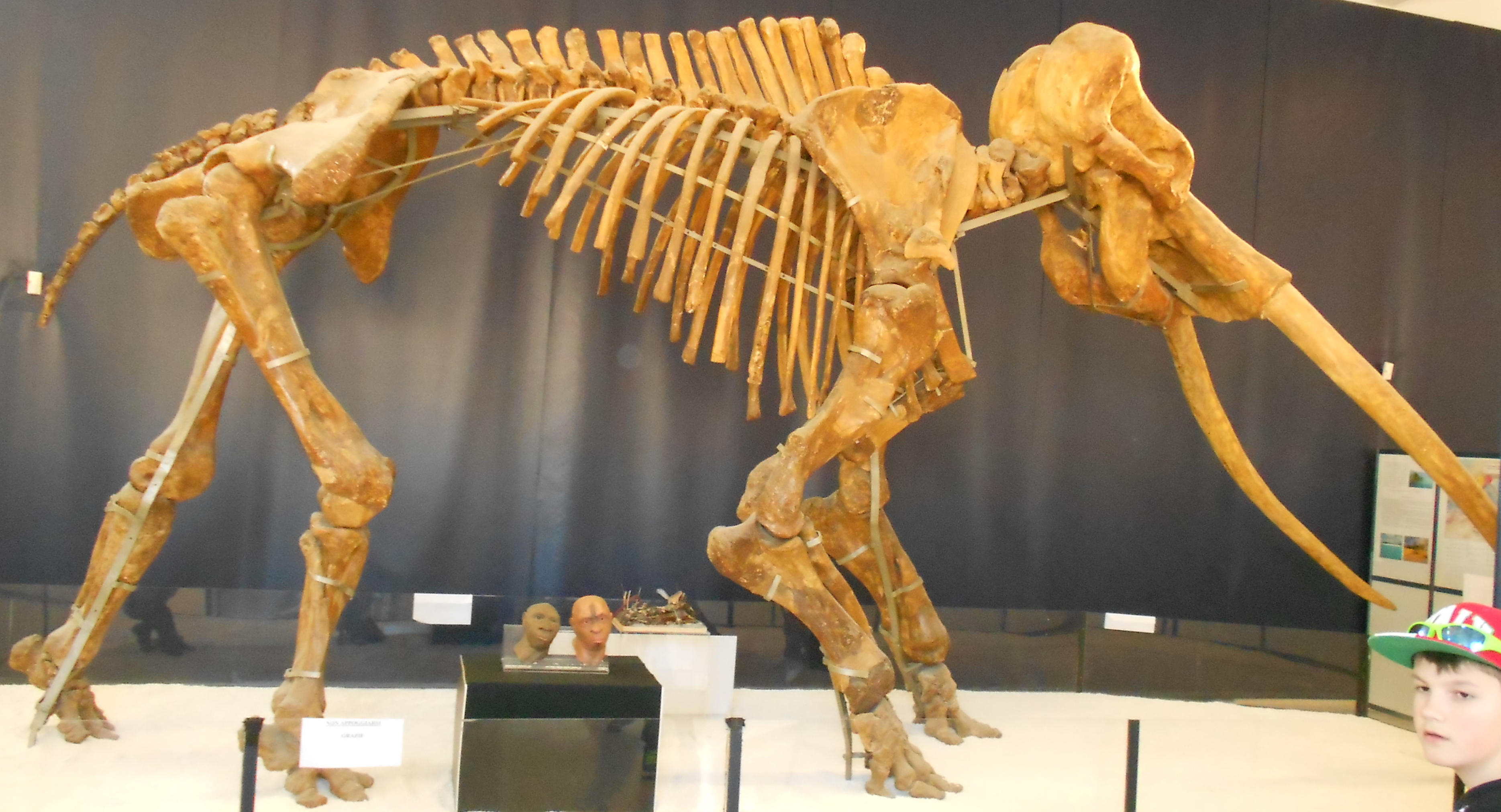 Skeleton of an Elephas antiquus in the Museo paleontologico of the university Sapienzia, Rome